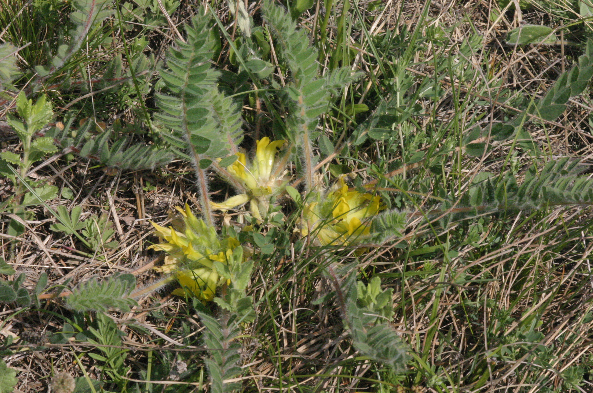 Astragalus exscapus